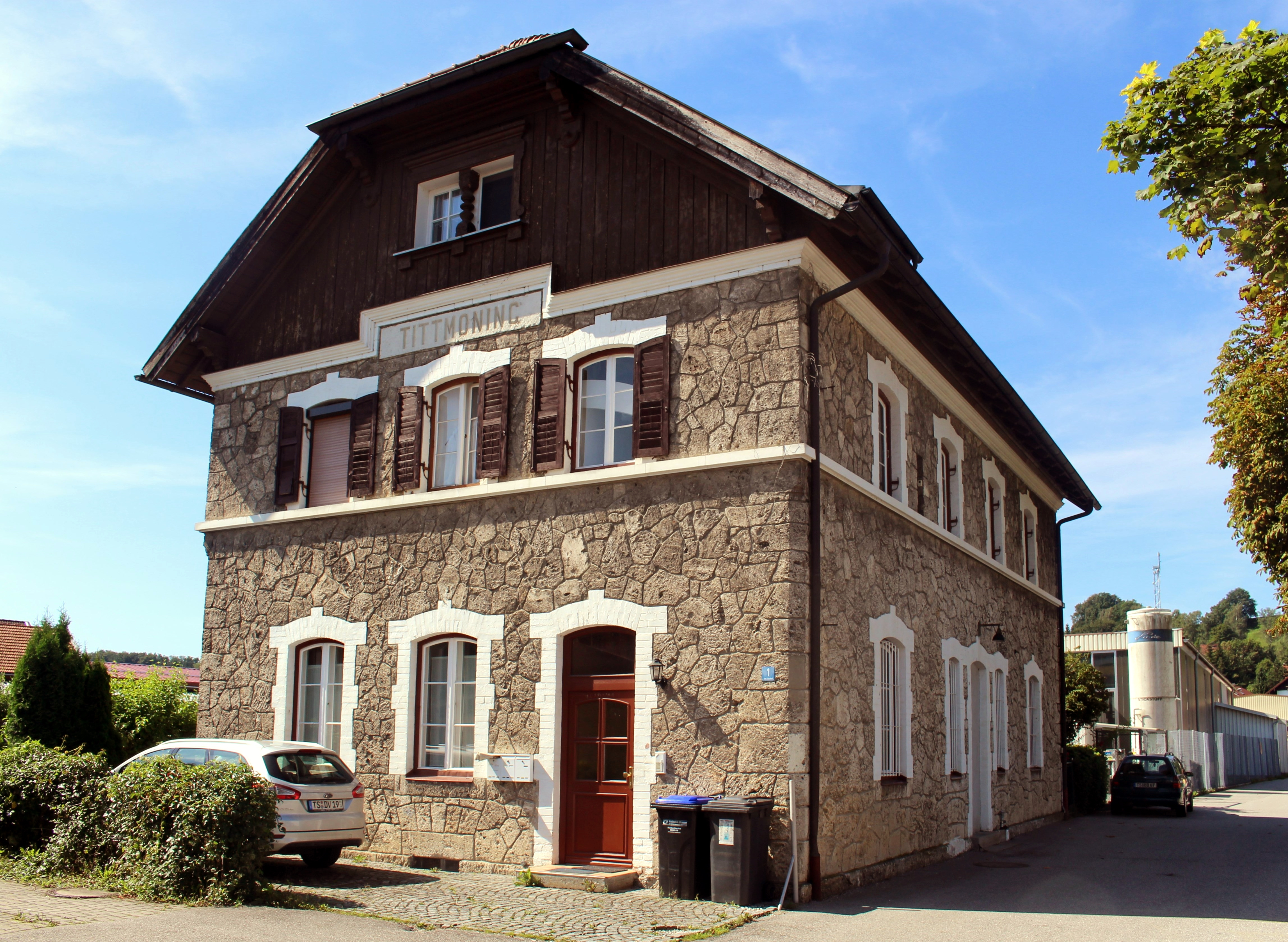 This is a photograph of an architectural monument.